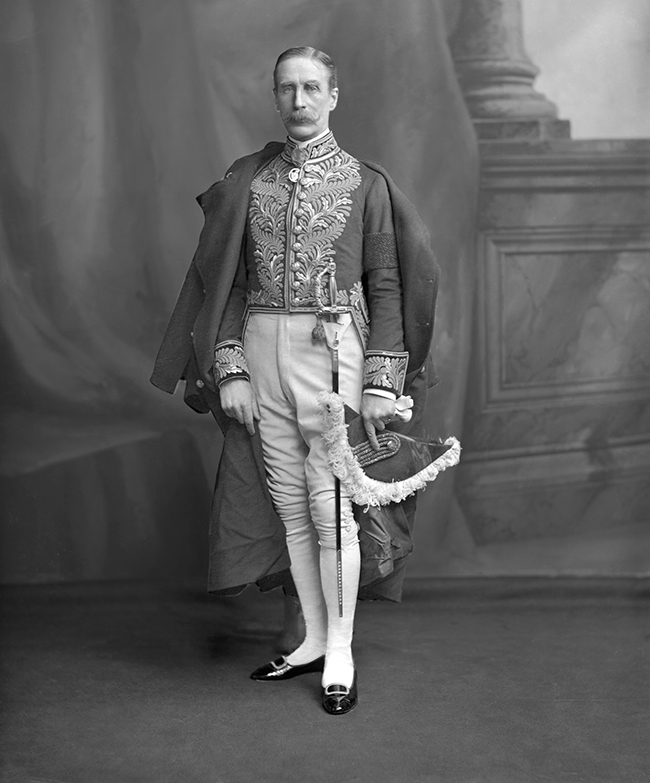 Rt. Hon. Sir Herbert Eustace Maxwell, 7th Bt. of Monreith (1845-1937) photographed on 1 April 1901